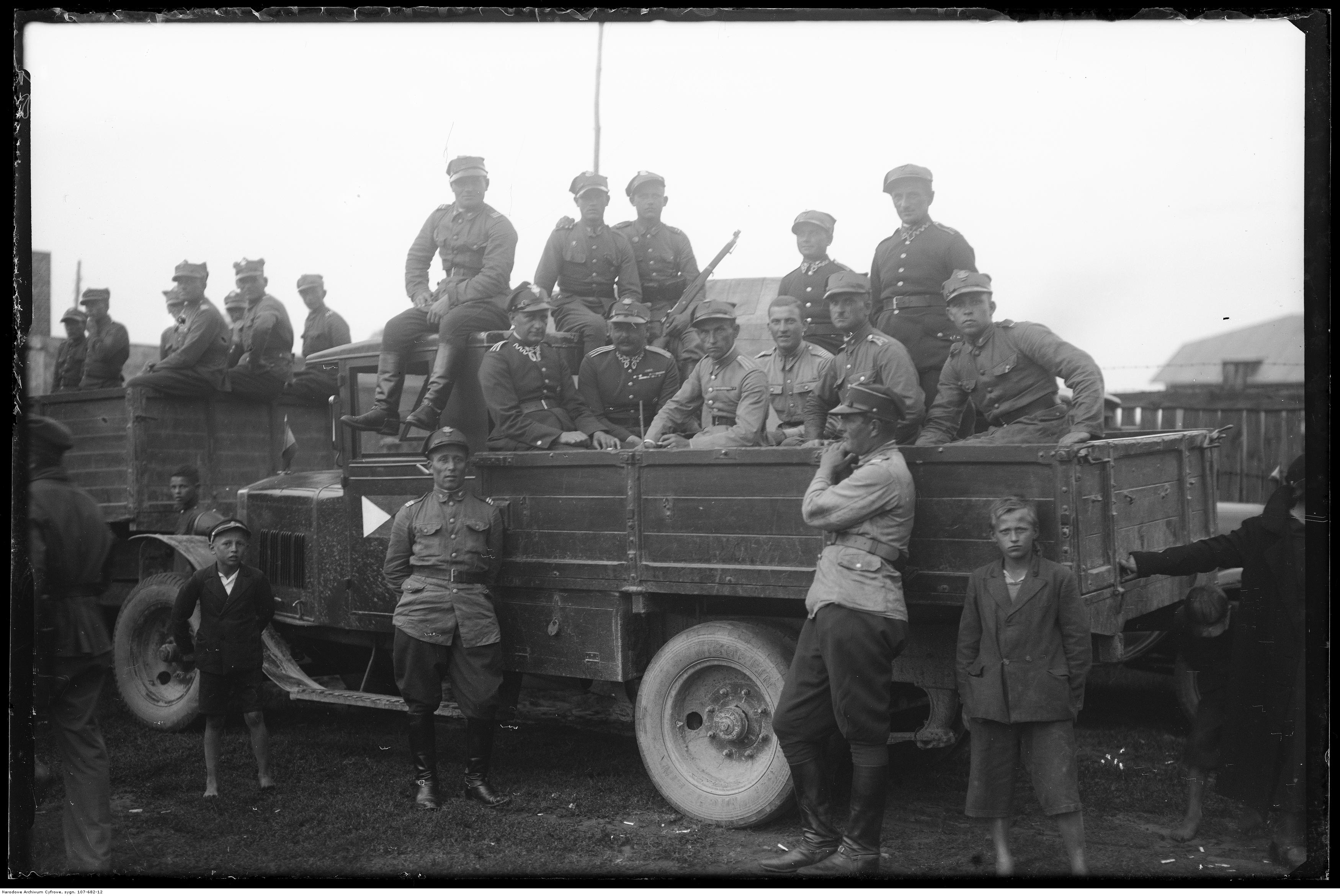 Ursus A truck late series of Polish 7th Uhlan Regiment